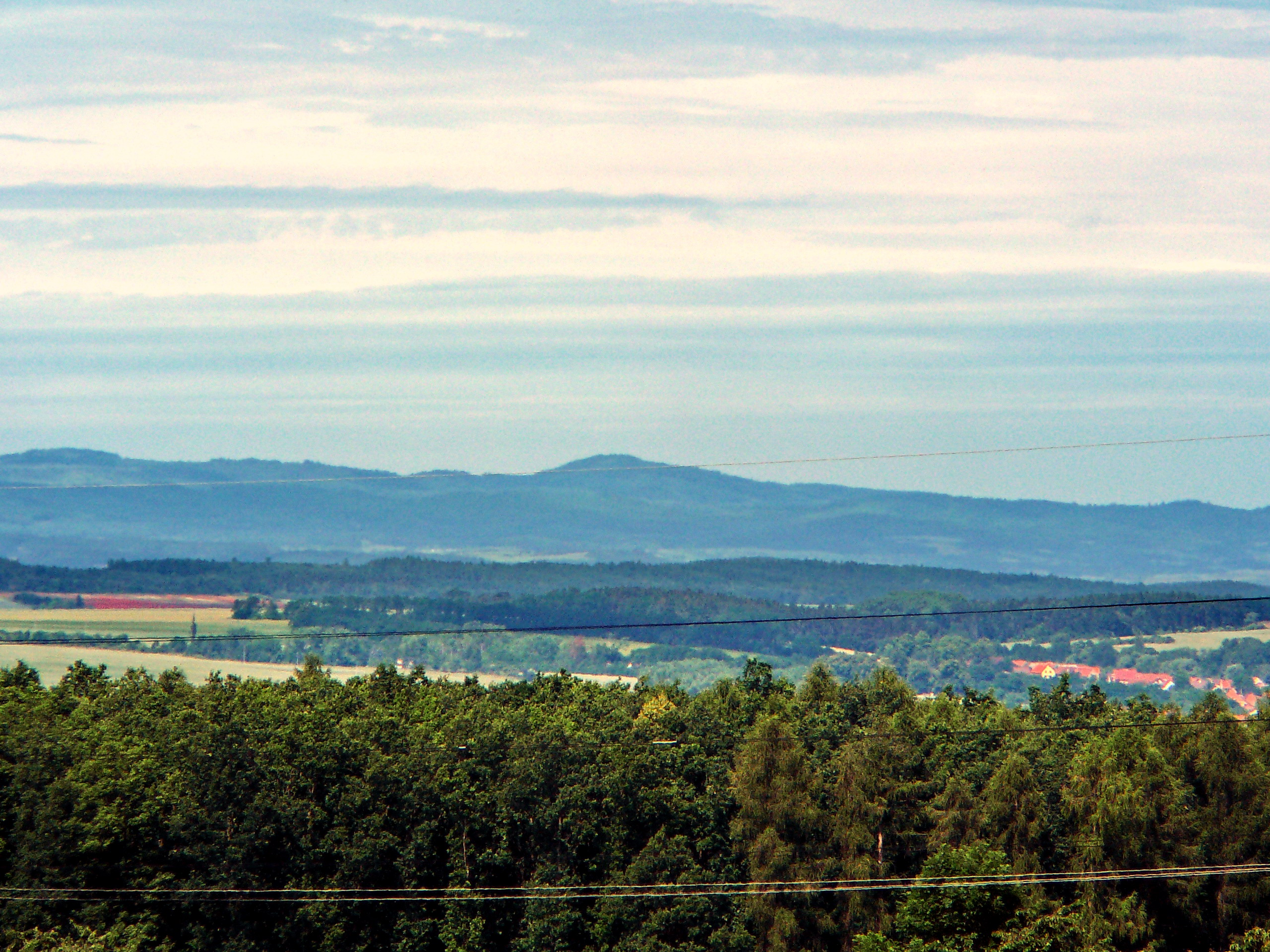 View of 50 km distant Doupov Mountains from Louštín hill. In the middle Pustý zámek mountain (933 m); Central Bohemia, the Czech Republic.